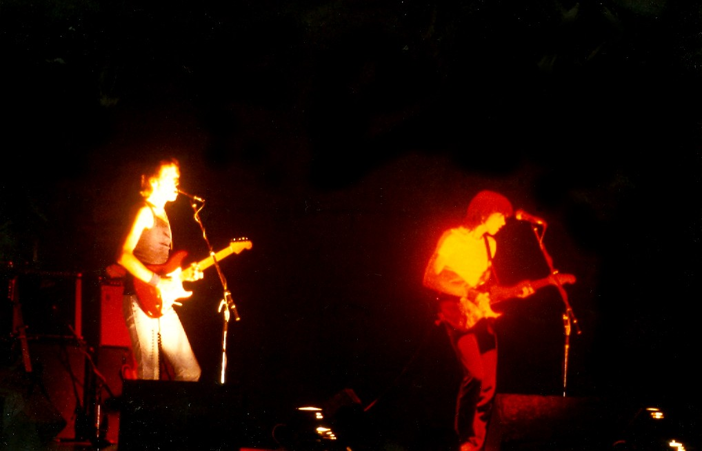 1979 Dire Straits - Mark & David Knopfler performing in Dire Straits